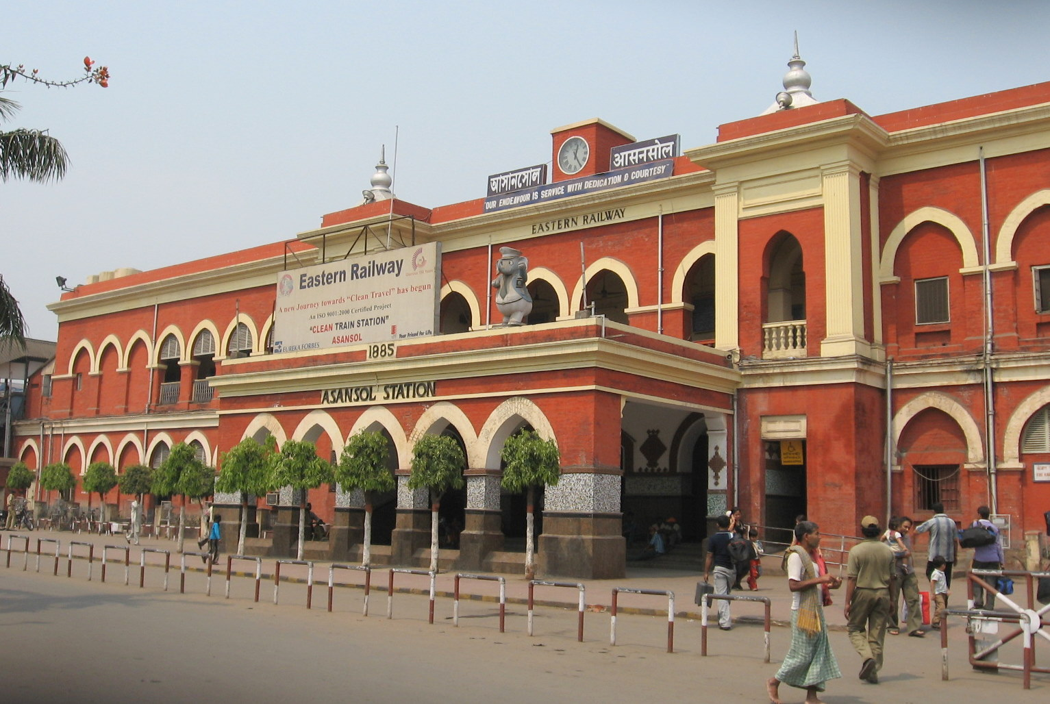 Asansol Railway Station built in 1885